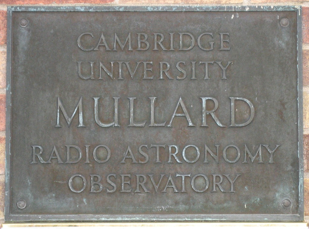 Photograph of the name plaque for Cambridge's Mullard Radio Astronomy Observatory.